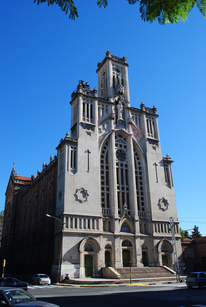 Maria Auxiliadora church. Cordoba, Argentina.